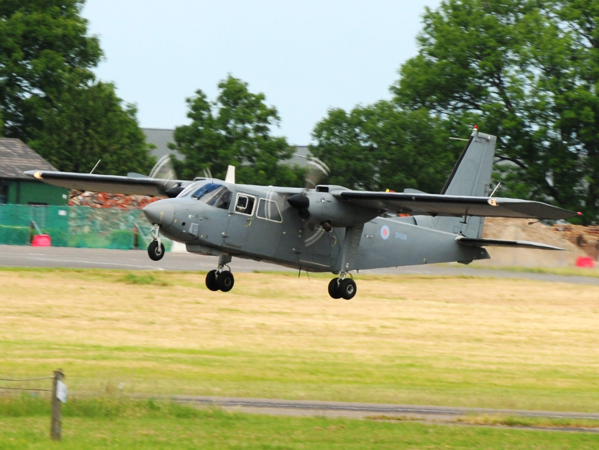 RAF Northolt 2009 BN Islander CC2 RAF